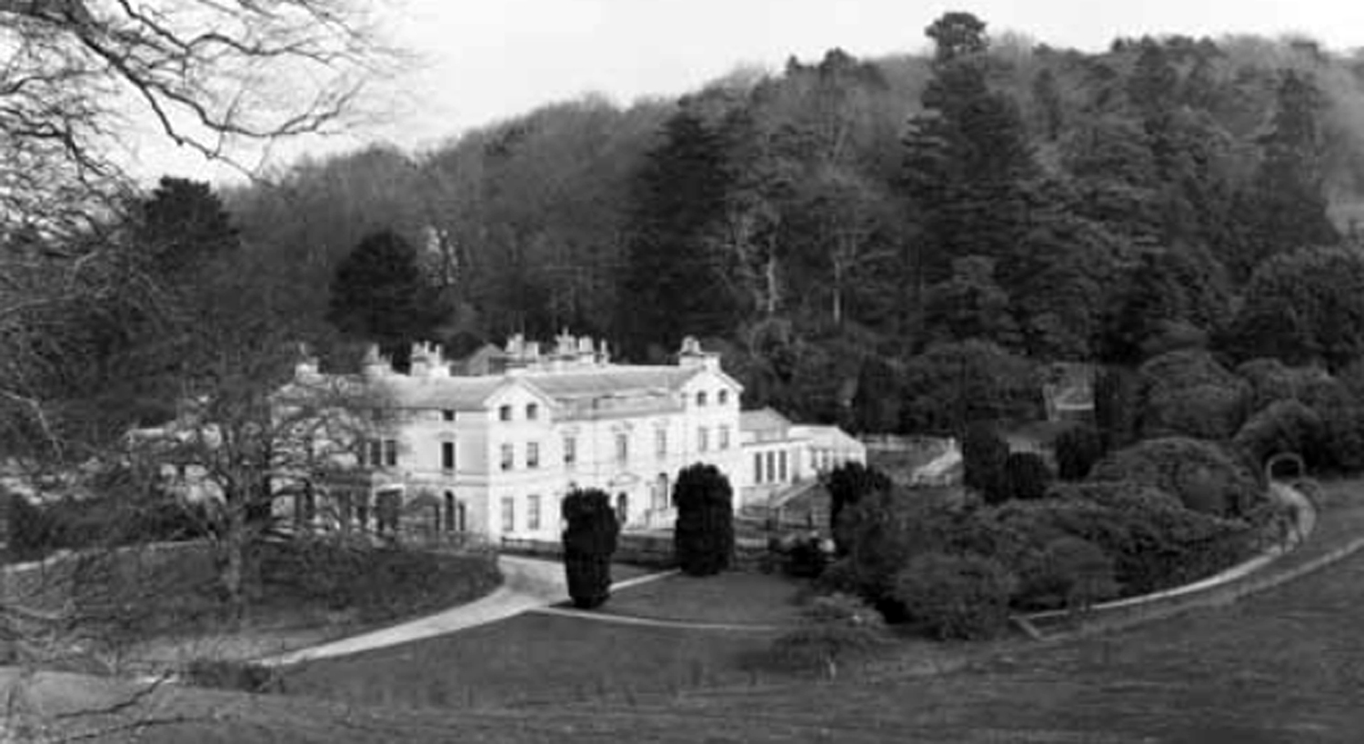 Lupton House, Brixham, Devon, c. 1900